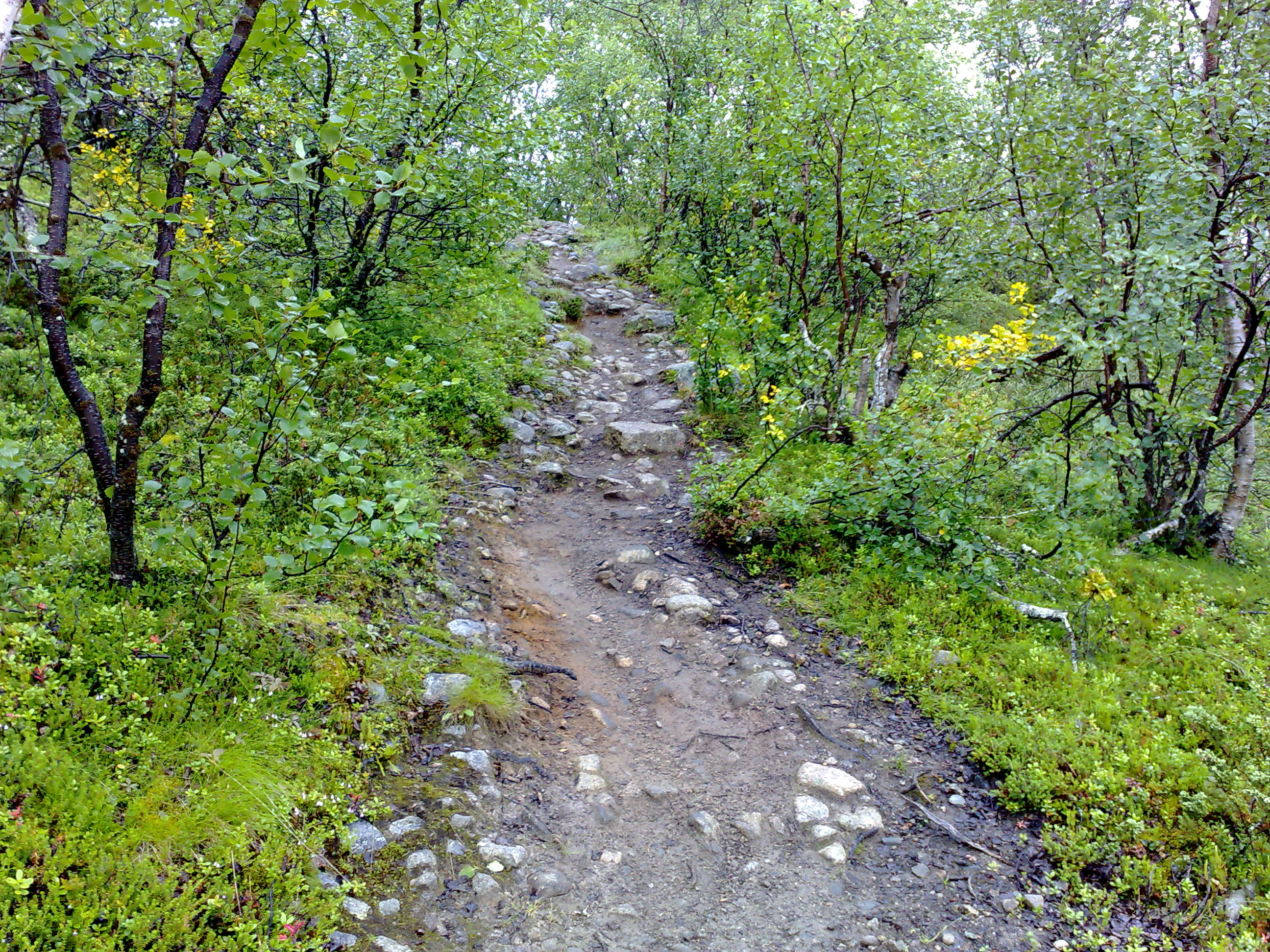 Path in Malla's natural park in Enontekiö, Finland